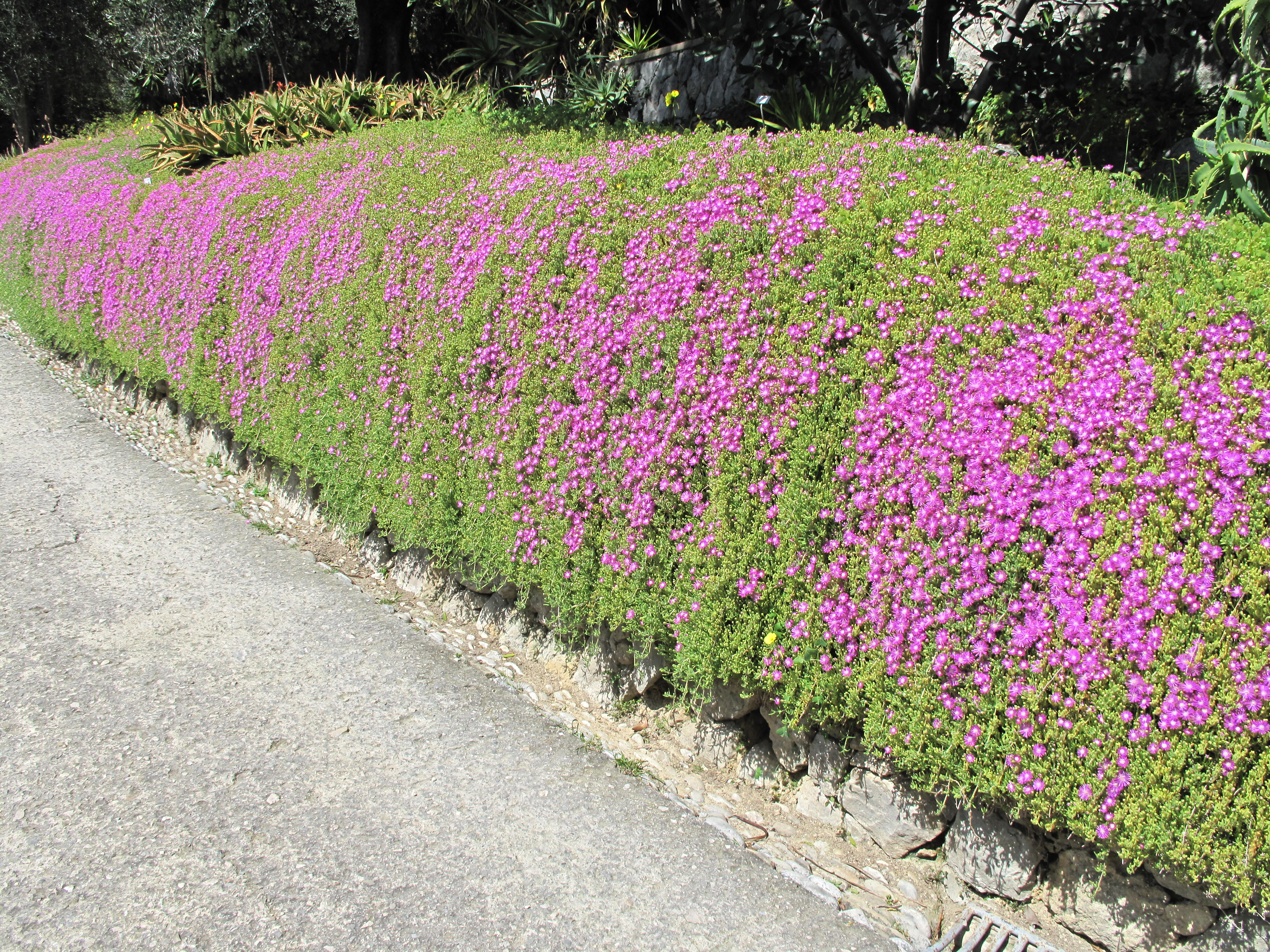 Drosanthemum hispidum in the gardens of the villa Hanbury (Ventimiglia, Italy). Identified by its botanic label.